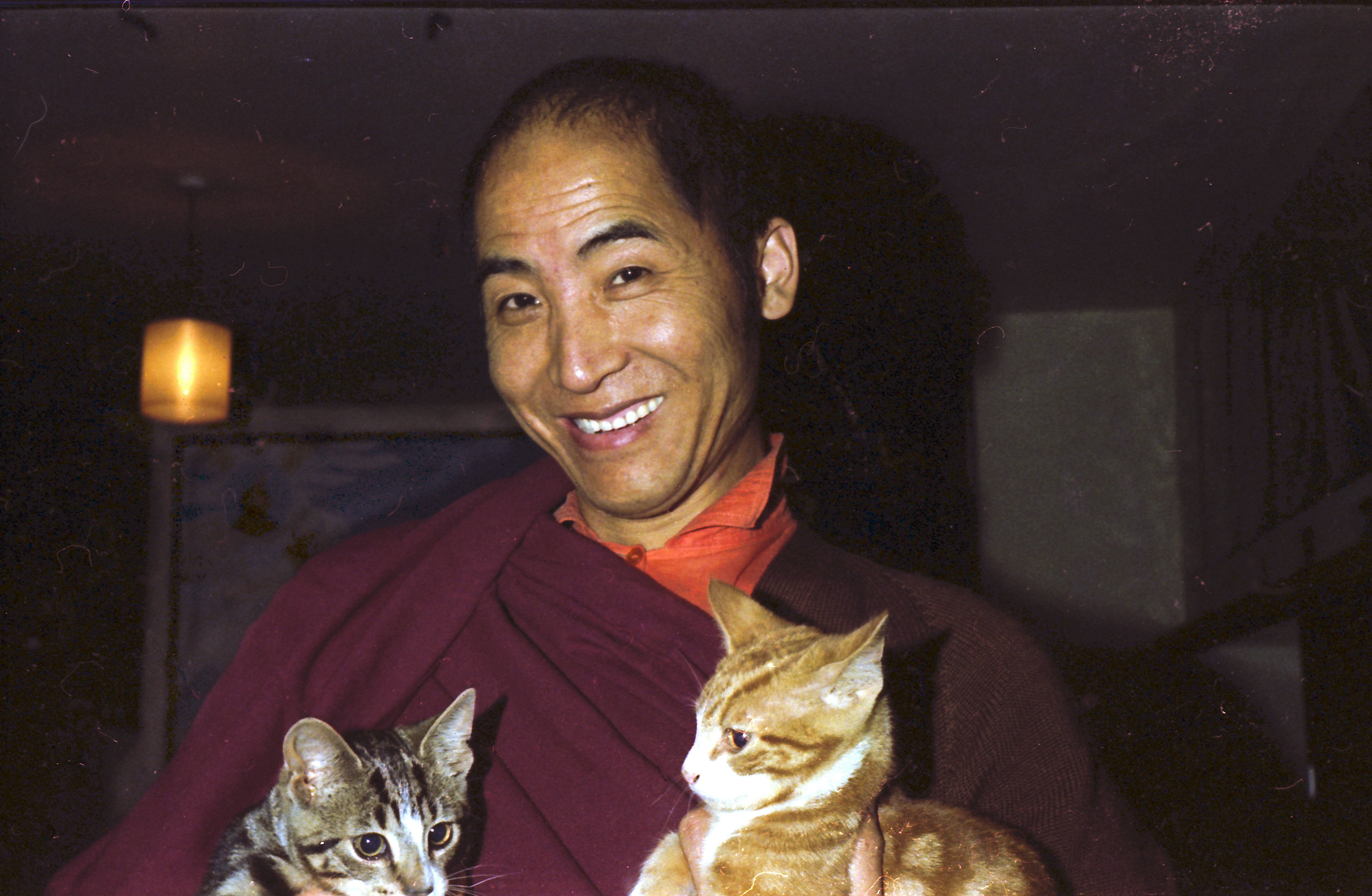 The monk Samten who came to Samye Ling with Sherab Palden Beru around 1967. For some years the resident Tibetan community at Samye Ling comprised Akong Rinpoche, Sherab Palden and Samten.